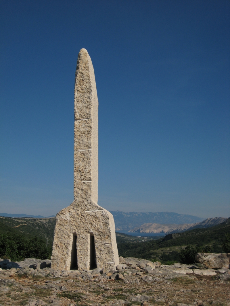 Croatia: A monument to Glagolitsa (stylized letter az) above Baška valley, Krk island, Croatia